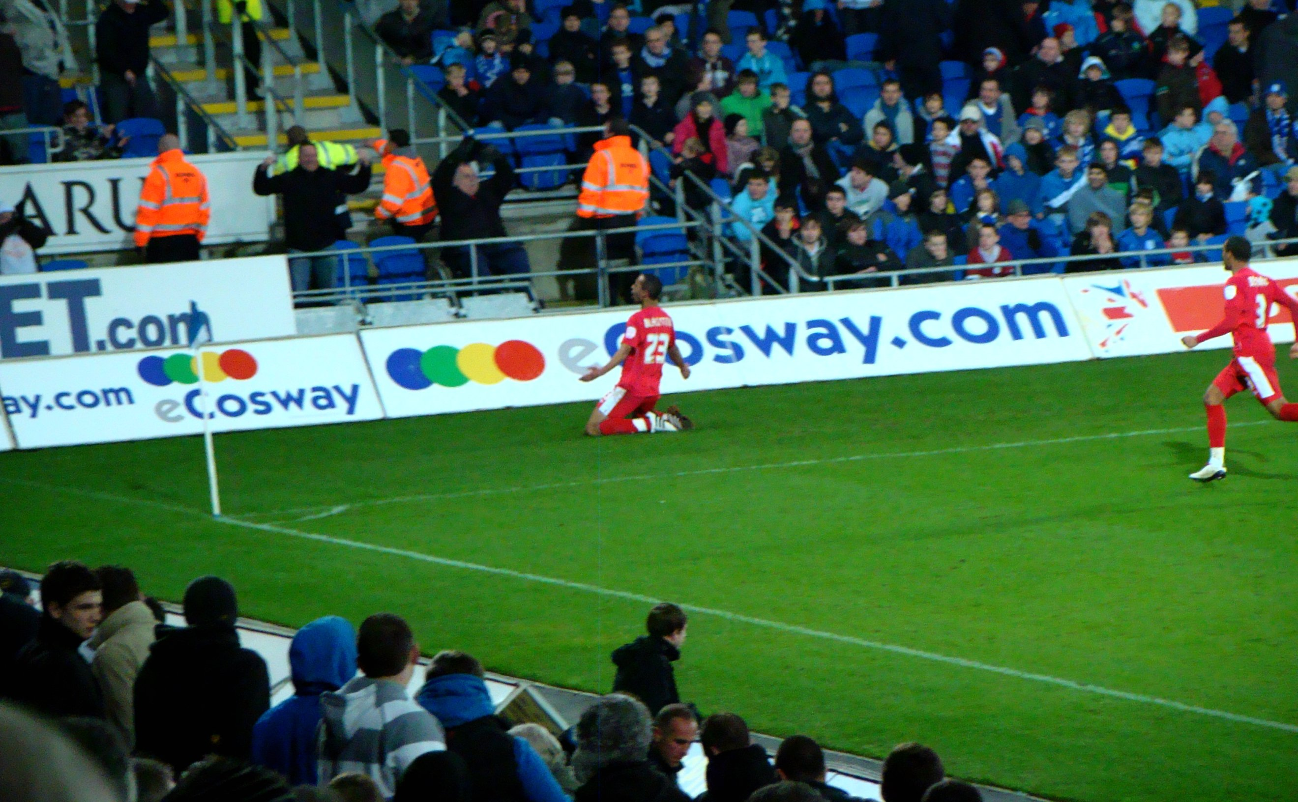 20/11/10 Cardiff V Nottingham Forest, Championship, Cardiff City Stadium, Cardiff, Wales